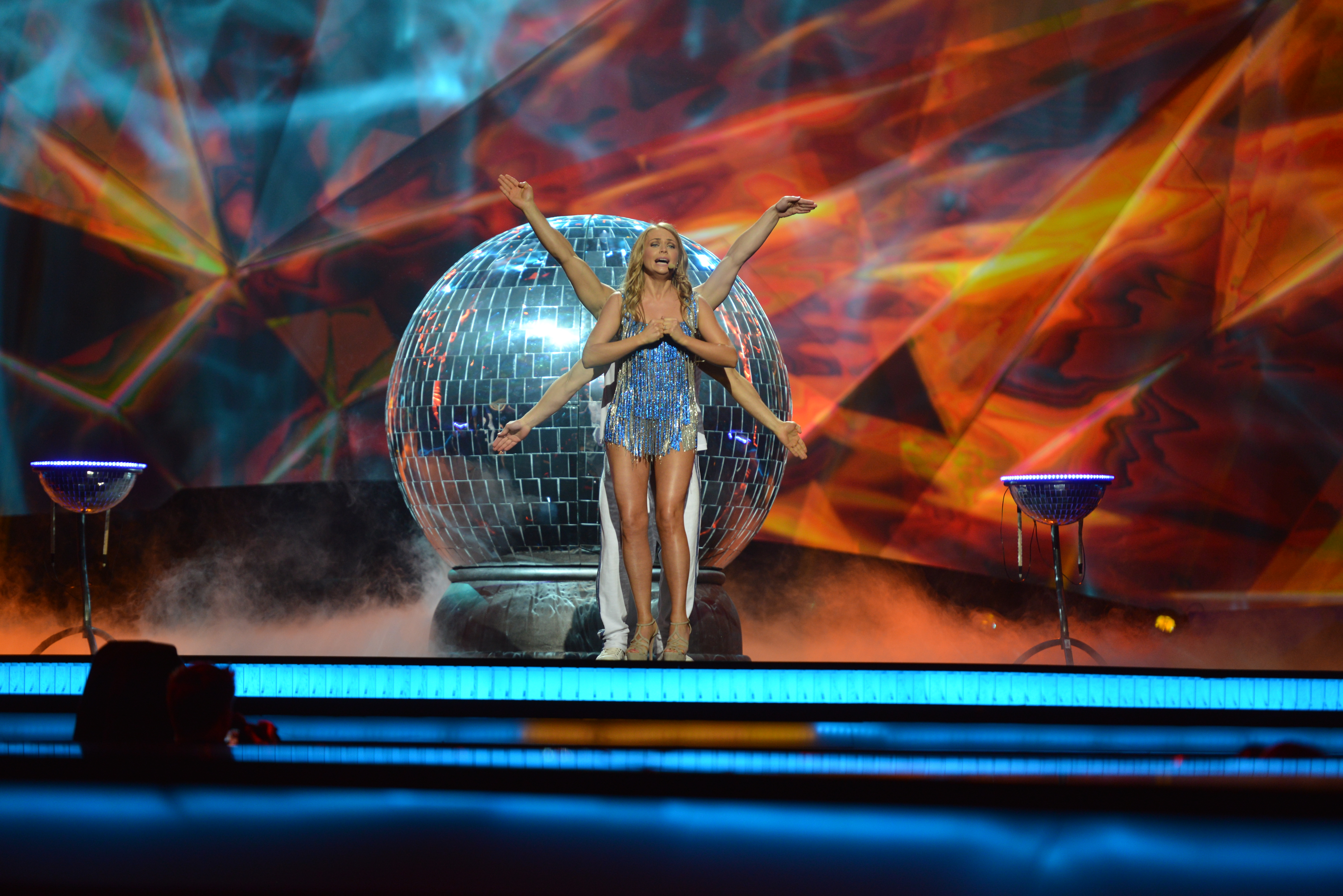 Alyona Lanskaya representing Belarus with the song "Solayoh" during the first dress rehearsal of the first semi final of the Eurovision Song Contest 2013 in Malmö. (Help translate this text)